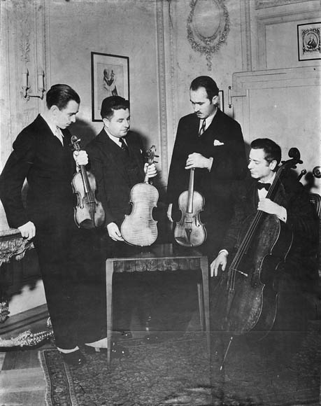 Handwritten on a physical version of this photoː "Four Stradivarius instruments played in Town Hall [New York] '/32 Harry Adaskin (ex Halir 1693), Milton Blackstone (ex Paganini 1730), Geza de Kresz (Prince Brancaccio 1725), Boris Hambourg (ex Pawle 1730)" (Sourceː Mária Kresz, Péter Királyː Géza de Kresz and Norah Drewett. Toronto, 1989.)